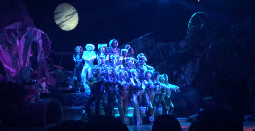 Cats performed on the Royal Caribbean Cruise Line's Oasis of the Seas ship ("Jellicle Songs for Jellicle Cats")